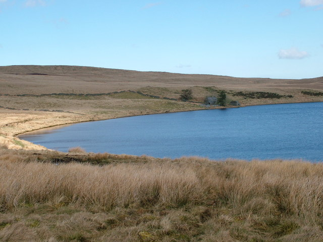 Llyn Alwen Lovely spot for a picnic.